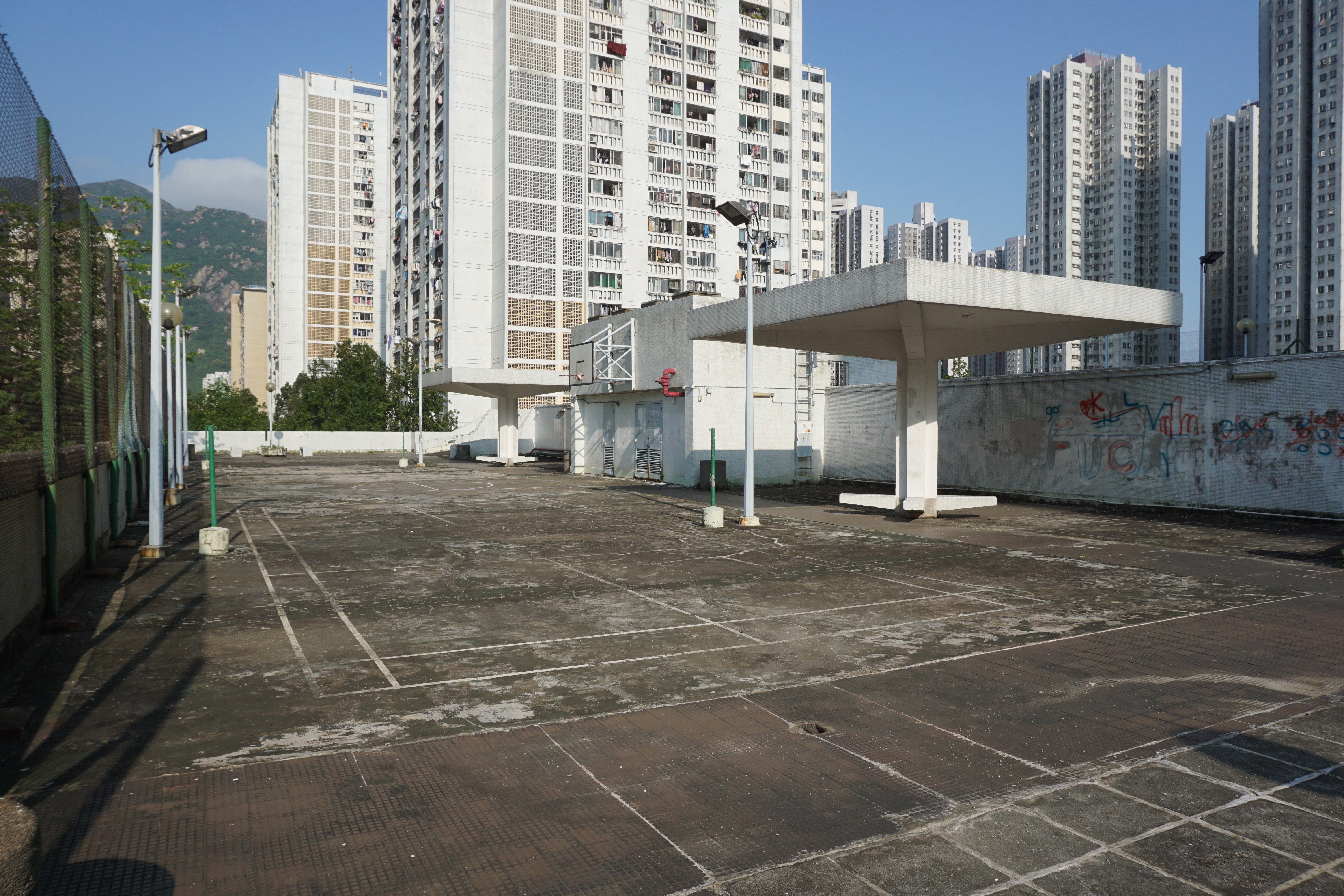 Yau Oi Estate in Tuen Mun, Hong Kong.